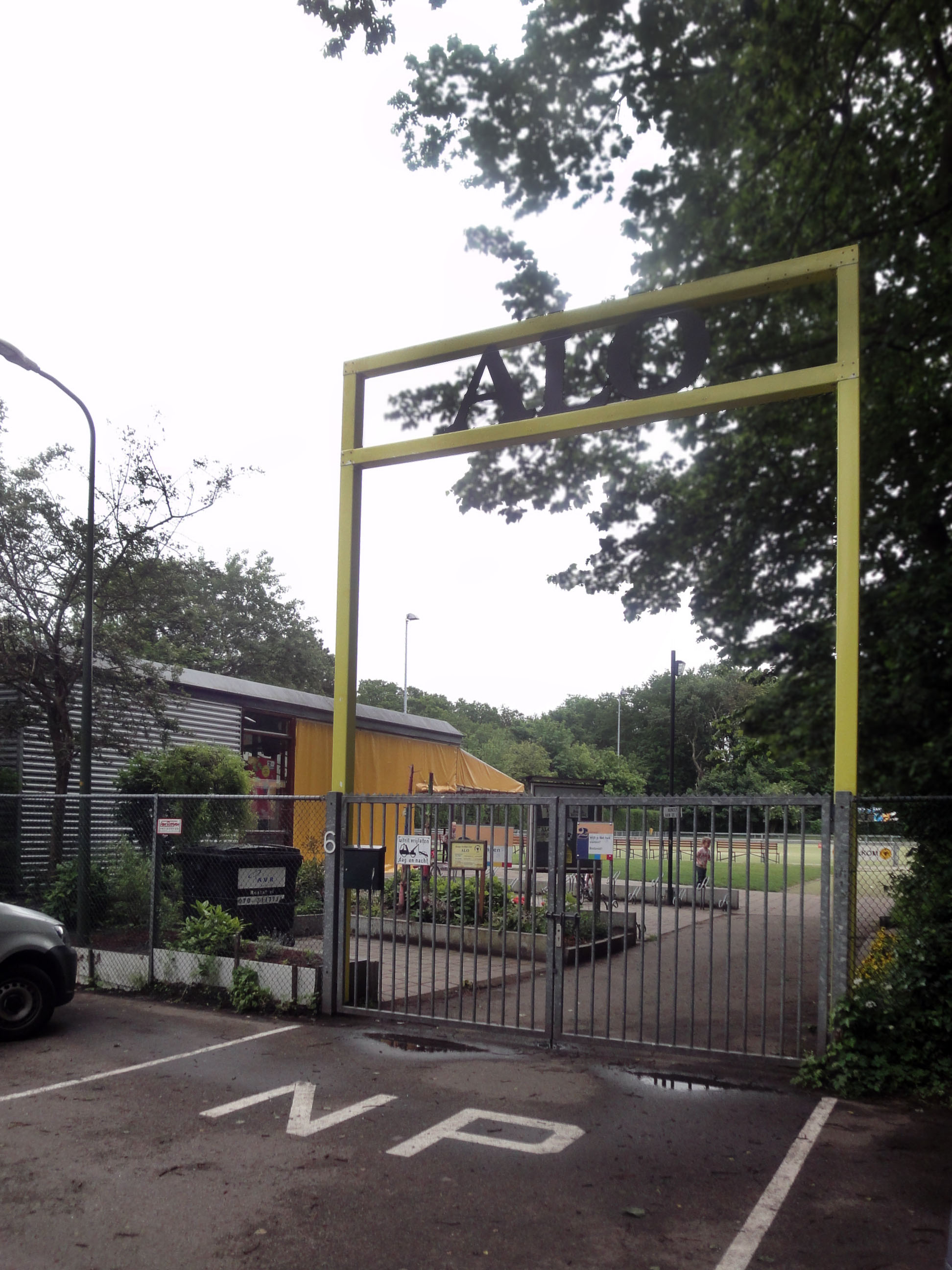 Korfball club HKS